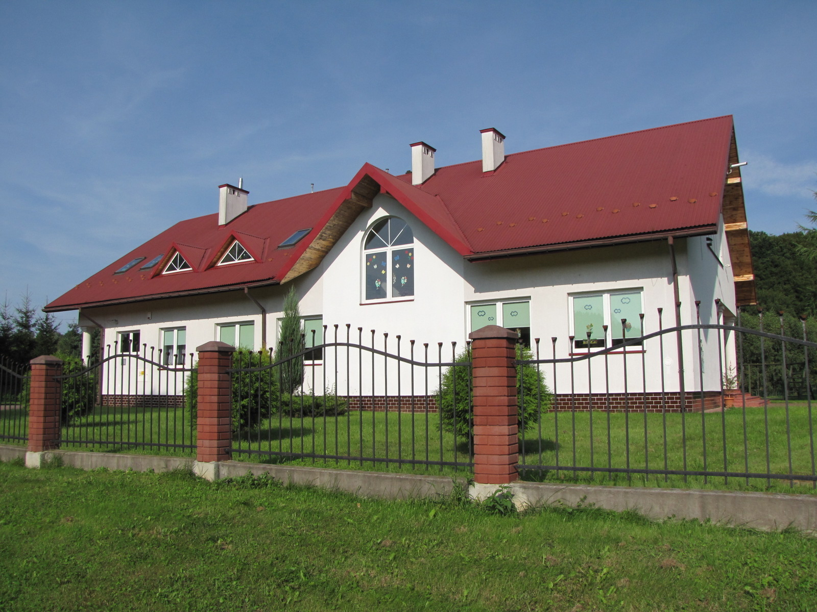 the school in Wielopole, county Sanok, Poland